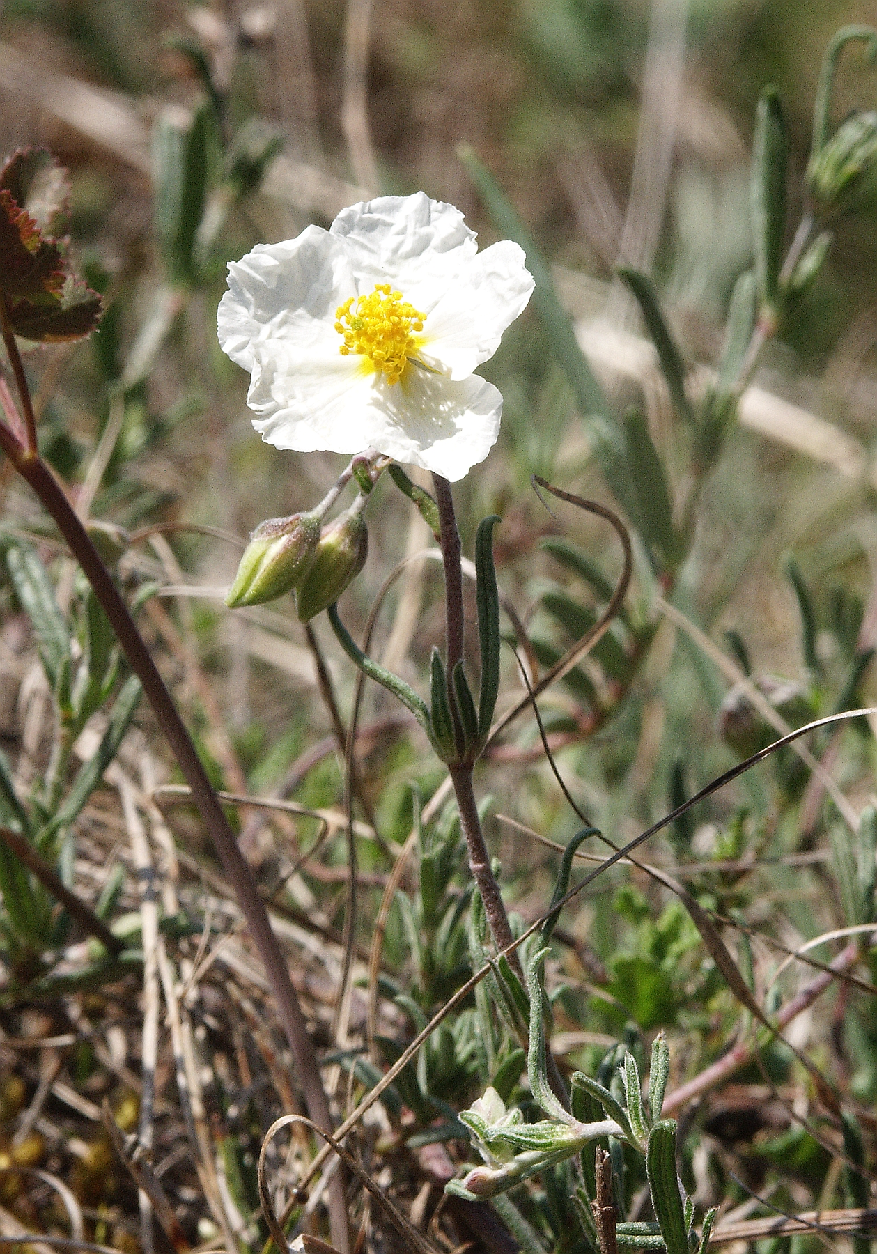 Helianthemum apenninum, Tauberland, Germany